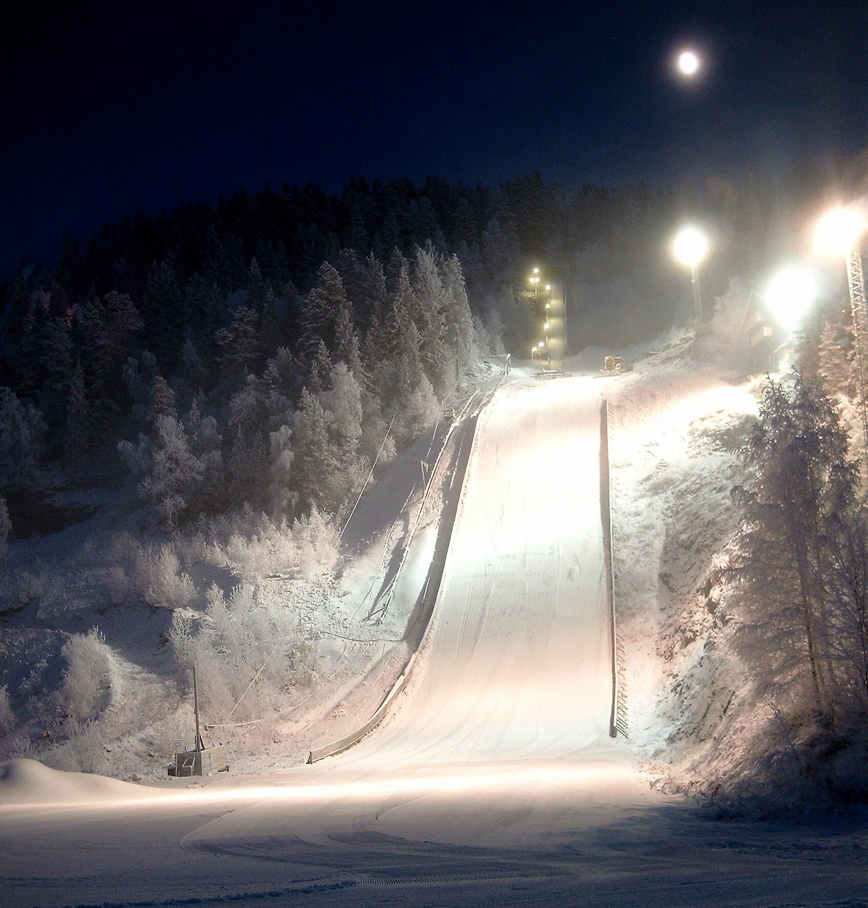 Vikersund large hill